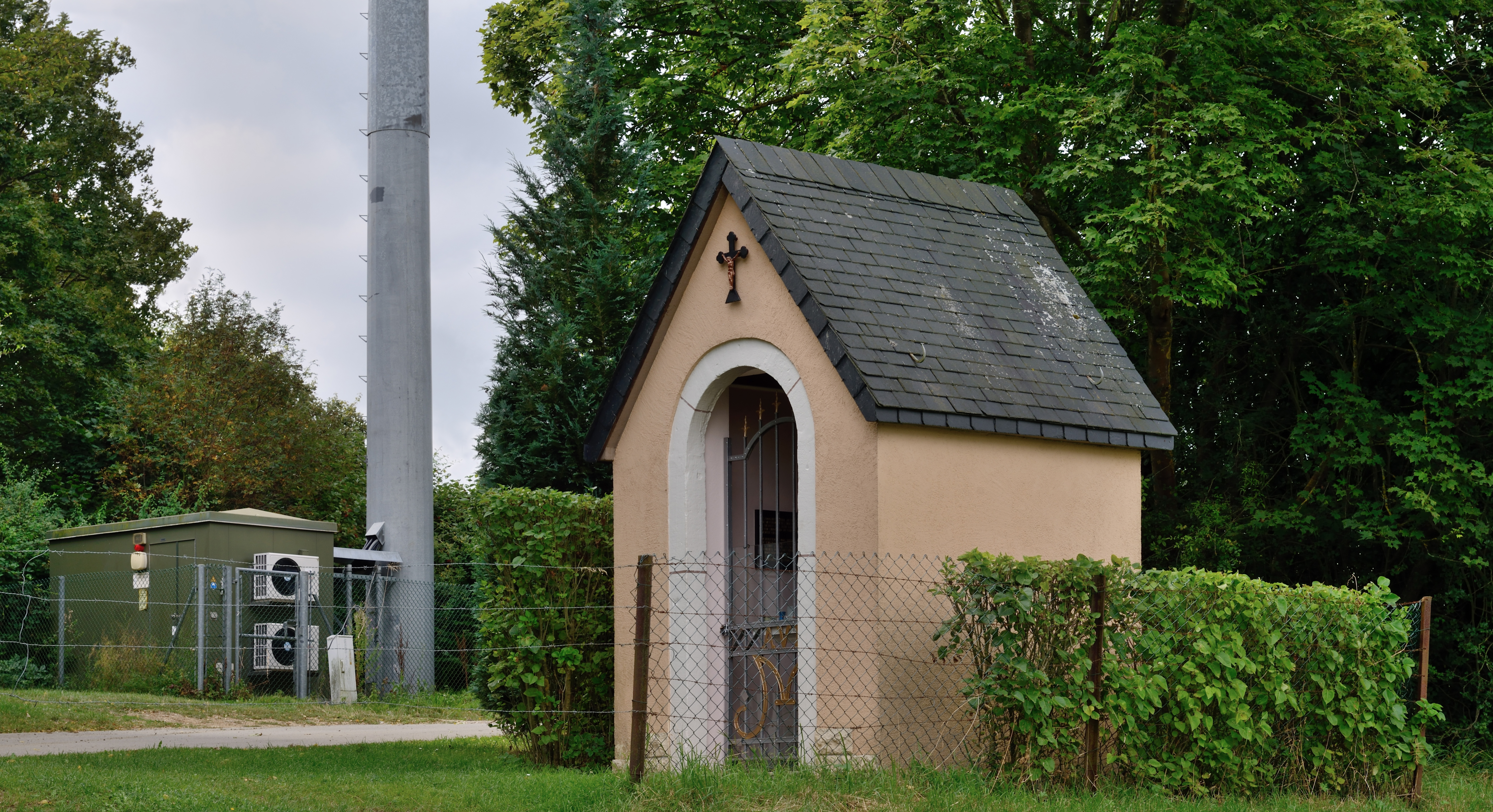 Saint Donatus chapel at Roeser, Luxembourg.